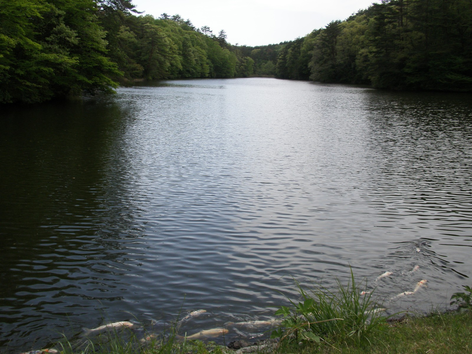 Koigakubo pond, Niimi, Okayama.